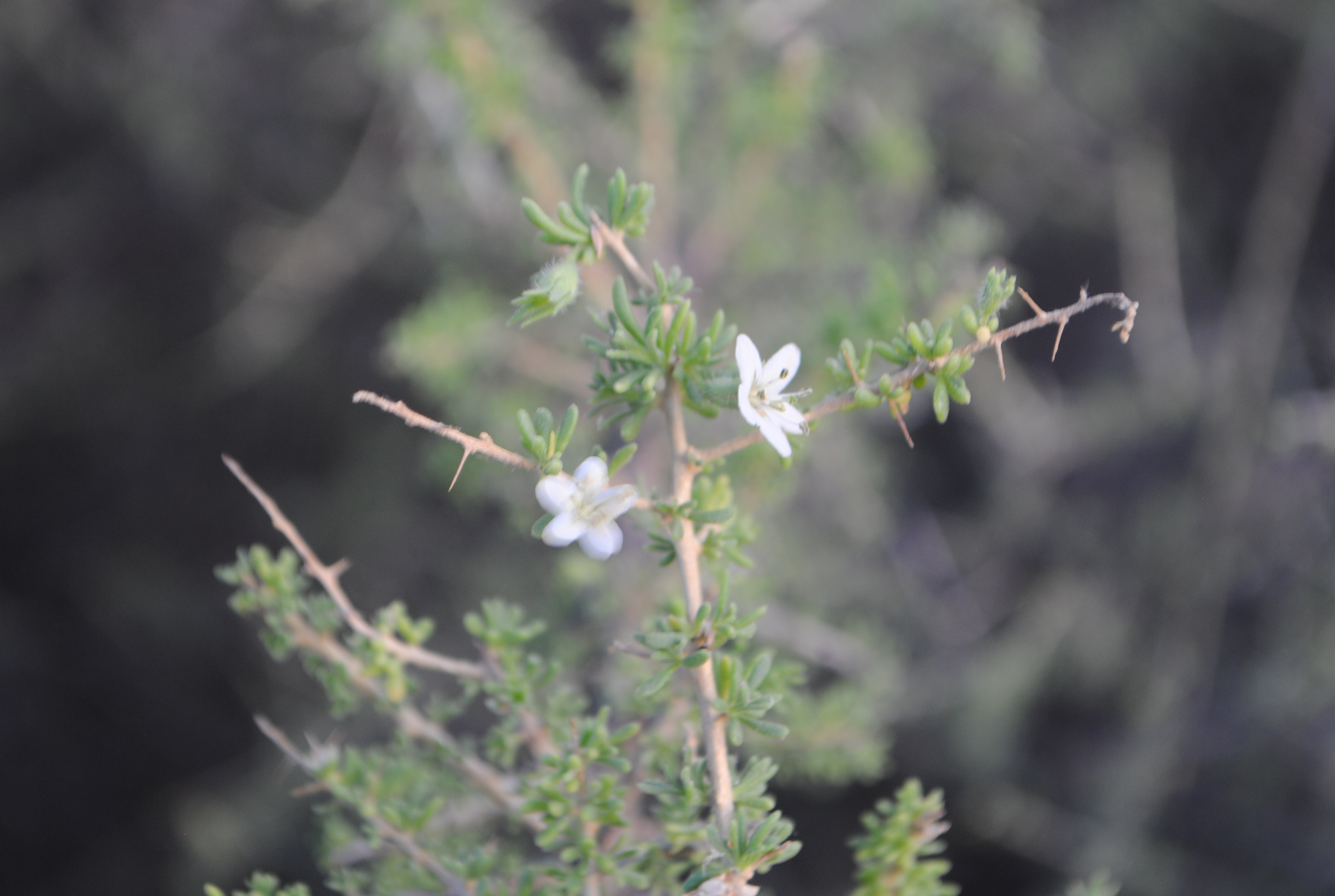 Lycium chilense plant with flowers growing near Las Grutas, Río Negro province, Patagonia, Argentina